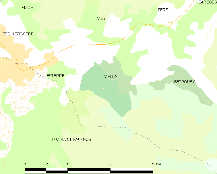 Map of French municipality